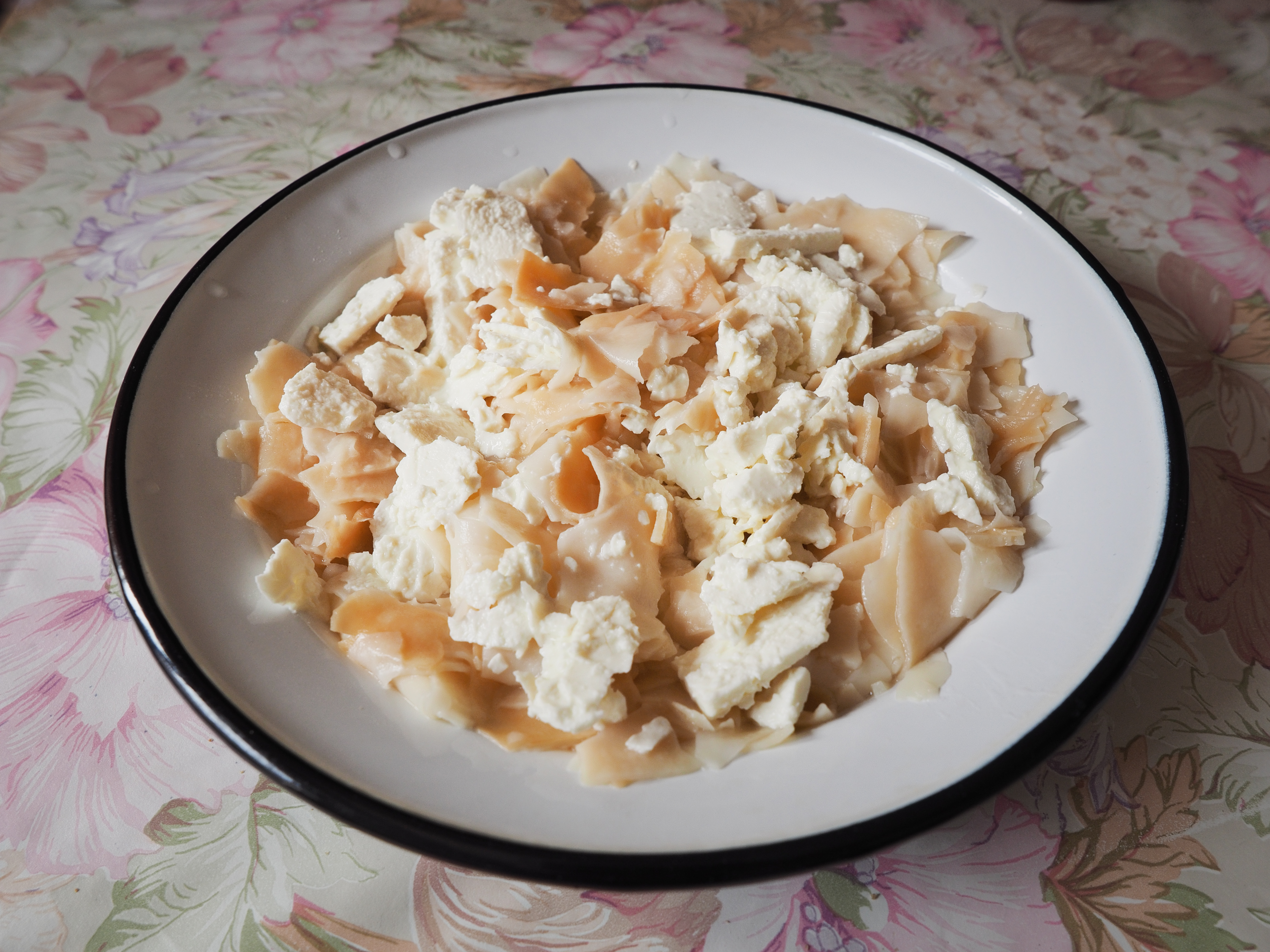 Cooked phyllo served with sheep cheese as part of Macedonian cuisine. Bitola, Macedonia.